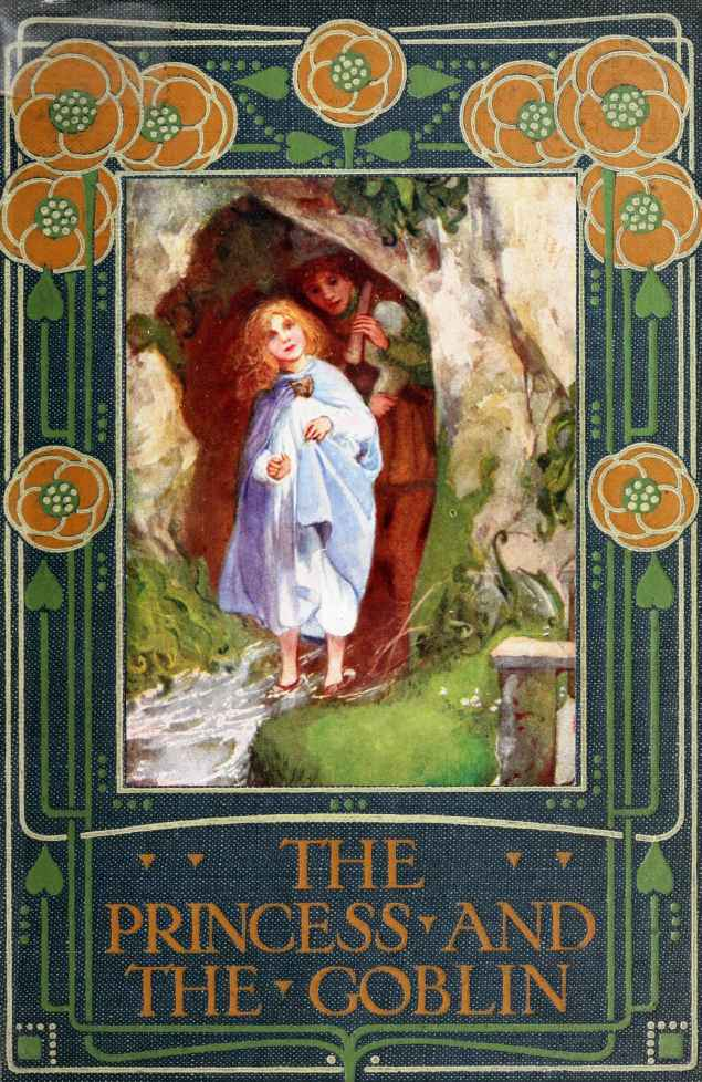 The Princess and the Goblin - With Twelve Full-page Illustrations In Colour by Helen Stratton, And Thirty Text Illustrations In Black-and-white By George Mac Donald, published By Blackie & Son Limited, Circa 1911